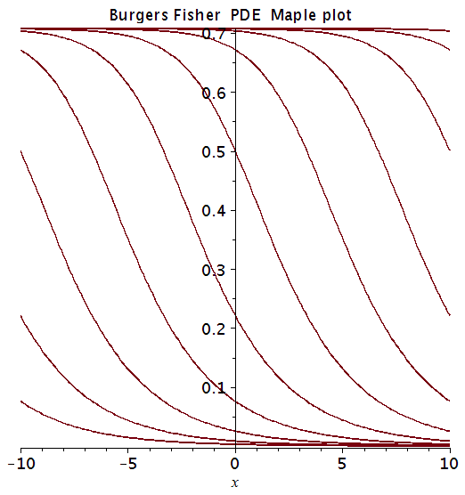 Burgers Fisher PDE Maple plot